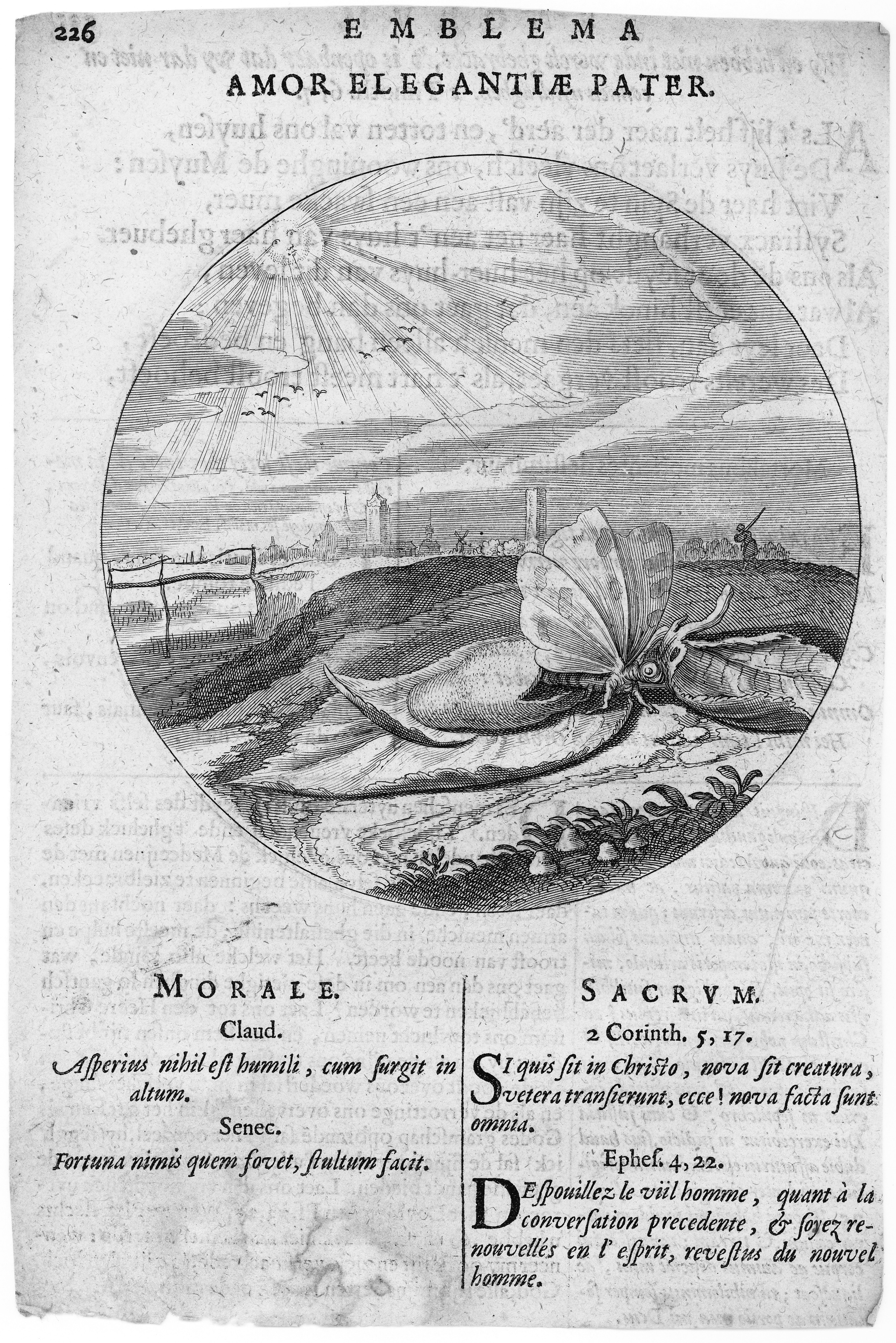 Page 226 from Jacob Cats, Monita amoris virginei, sive officium puellarum in castis amoribus, emblemate expressum. Maedchen-Pflicht, ofte Ampt der ionckvrovwen, in eerbaer liefde aenghewesen door sinne-beelden. Published in Amsterdam by Willem Iansz Blaeu in 1620. The publication history of Cats’ emblematic works is rather confusing. His Monita amoris virginei of 1620, from which this image was taken, is a modified edition of his work Silenus Alcibiadis, sive Proteus, vitae humanae idam, Emblemata trifariam variatio, oculis subjectis (Middelburg 1618) which contains exactly the same pictures. A later modification, called Proteus ofte Minne-beelden verandert in Sinne-beelden (Rotterdam 1627), repeats the same pictures but adds square frames to them. All these works should not be disturbed with Cats’ other (but similar) group of emblematic works, the Emblemata moralia et ae[!]conomica (Rotterdam 1627). For some bibliographic hints, see the standard publication by Arthur Henkel and Albrecht Schöne, Emblemata. Handbuch der Sinnbildkunst, Stuttgart (Germany) 1967 and reprinted, page xl/xli. But the edition of Amsterdam 1620 from which this picture has been taken is not mentioned by Henkel/Schöne. The copper engraving of all emblems was (according to Henkel/Schöne’s information about the first edition, Middleburg 1618) probably made by Jan Gerritsz Swelinck (born aroung 1601) after drawings of Adriaen van de Venne (1589-1662). The motto of this emblem—the last one—reads Amor elegantiae pater, “Love is the father of elegance”. After this page, 3 more pages follow with various citations interpreting the emblem.